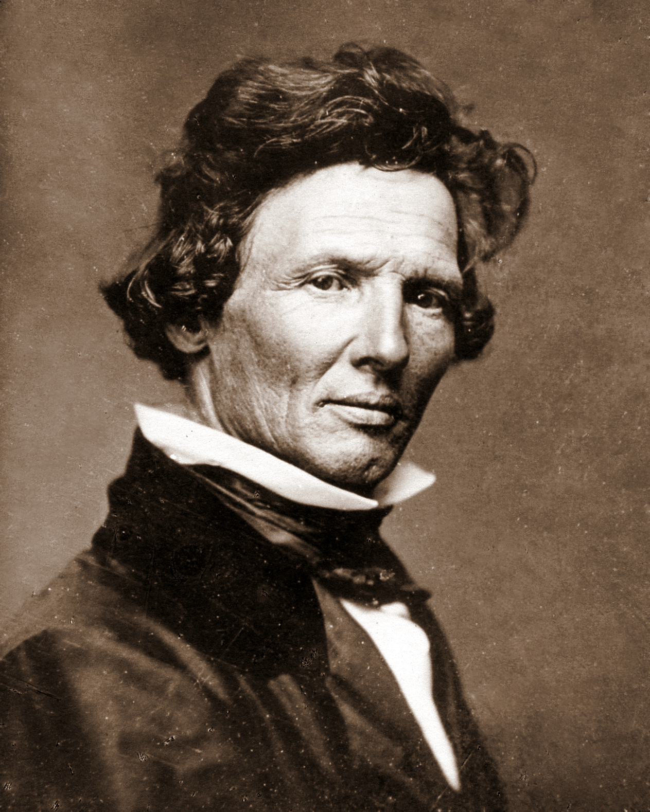 Edward Troye (1808-1874), French-American painter of horses. Copyprint of a portrait of Troye from a daguerreotype.